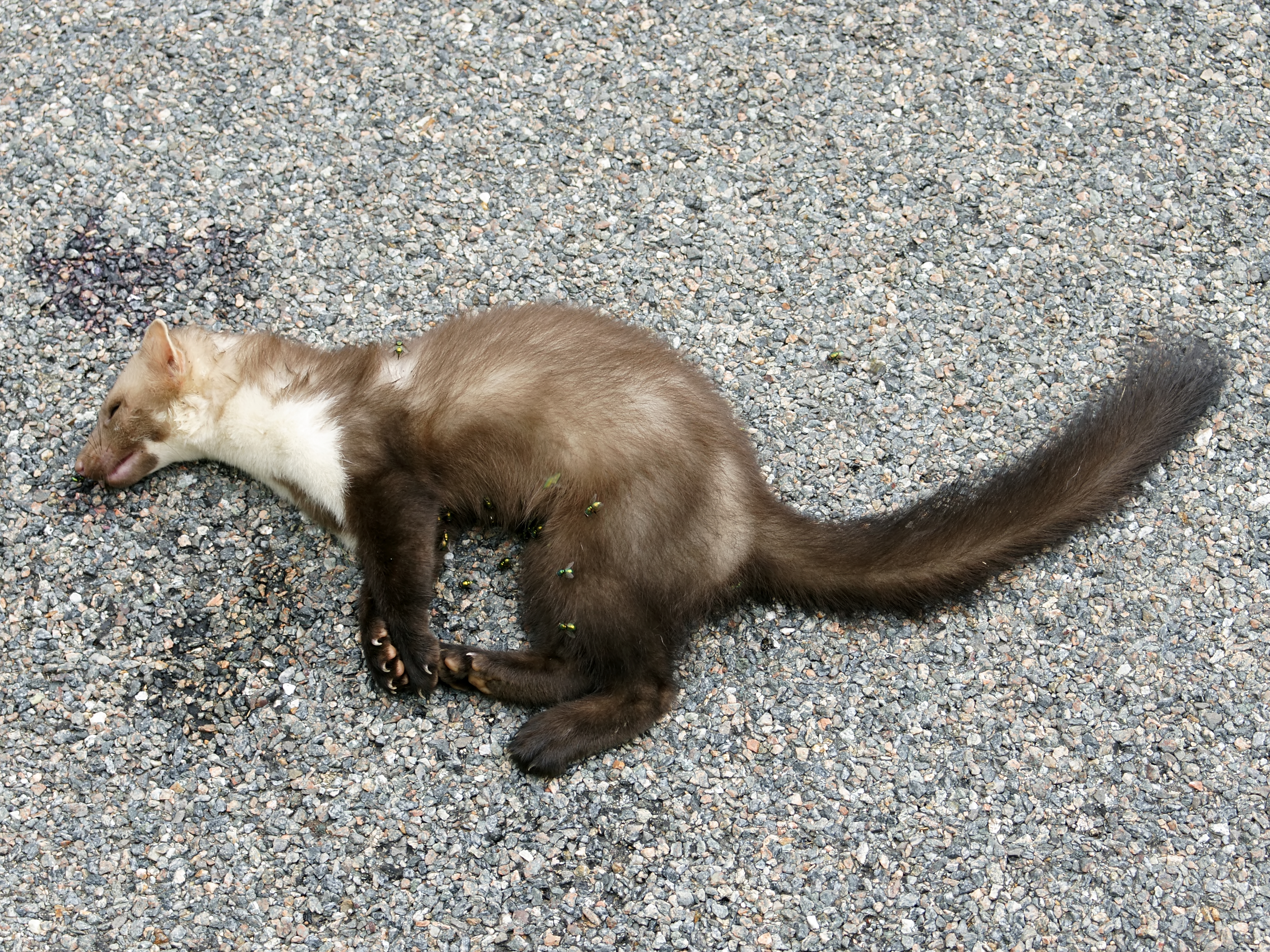 Stone Marten roadkill near Nanteuil-en-Vallée, Charente, France